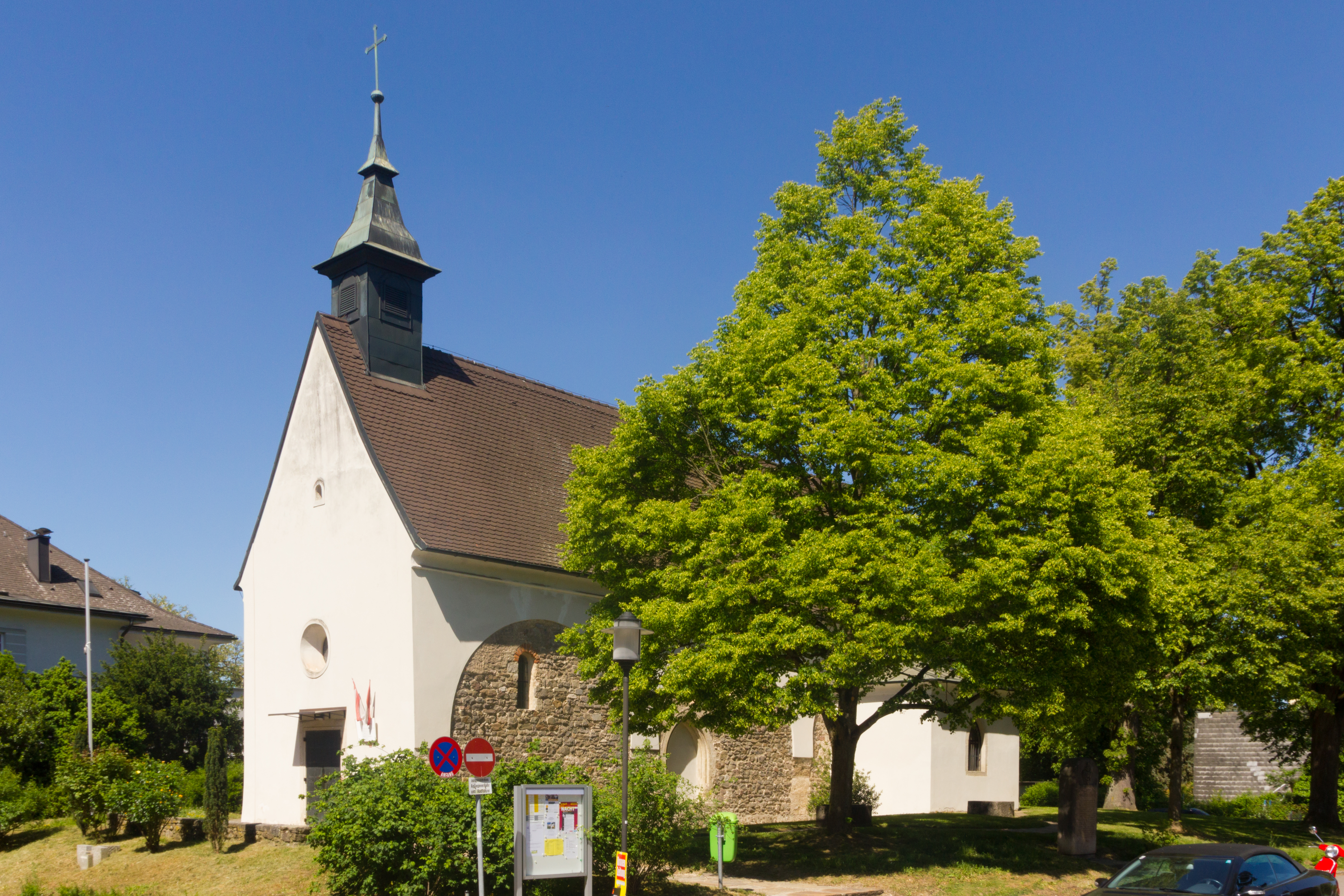 St. Martins Church in Linz.